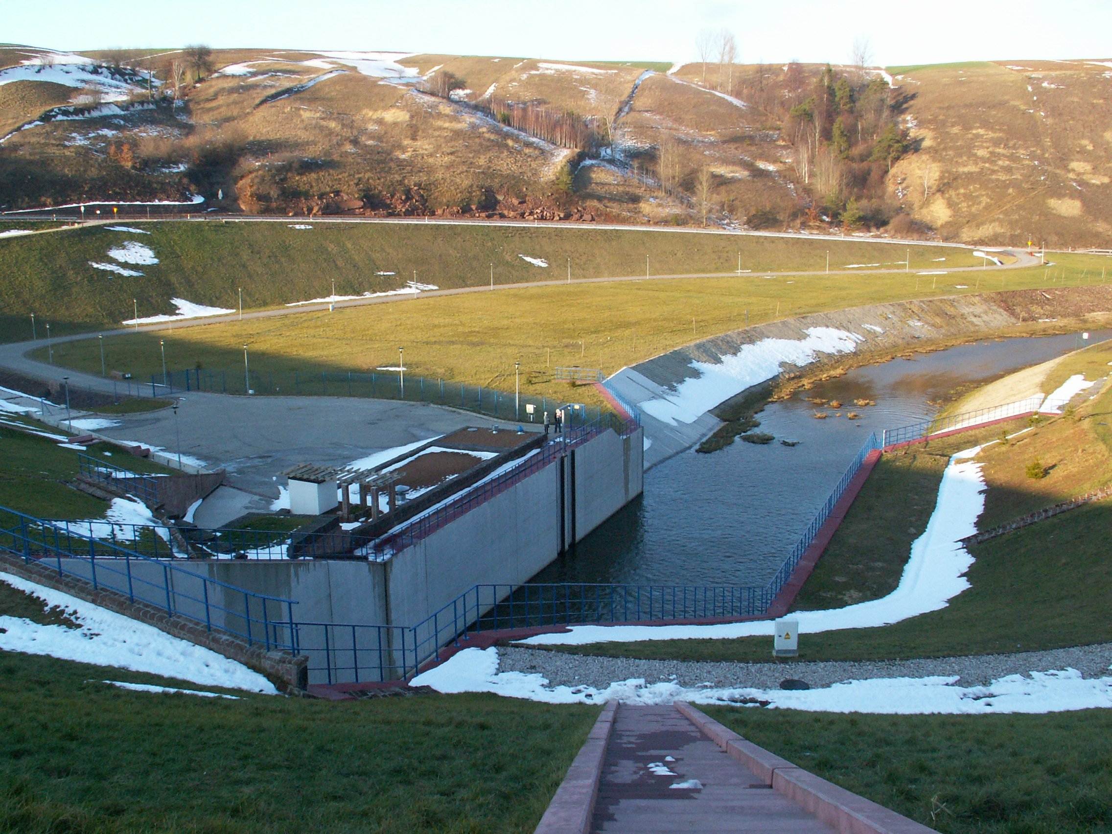 Wióry reservoir in Poland